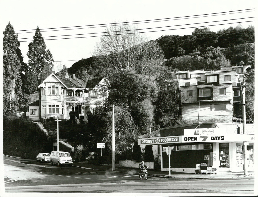 Contrasting architecture styles near the corner of George, Park, and Regent Streets, Dunedin North, New Zealand in 1974.